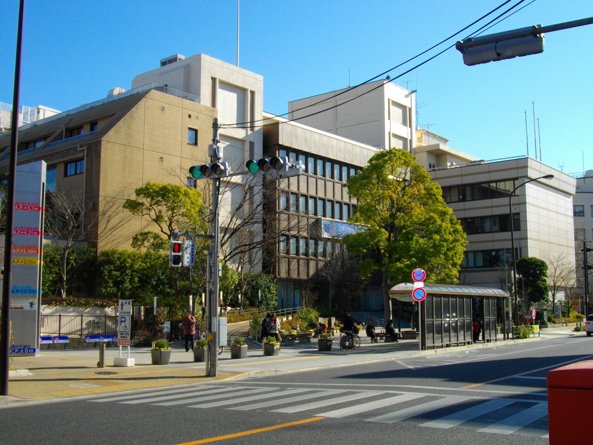 Edogawa Ward Office